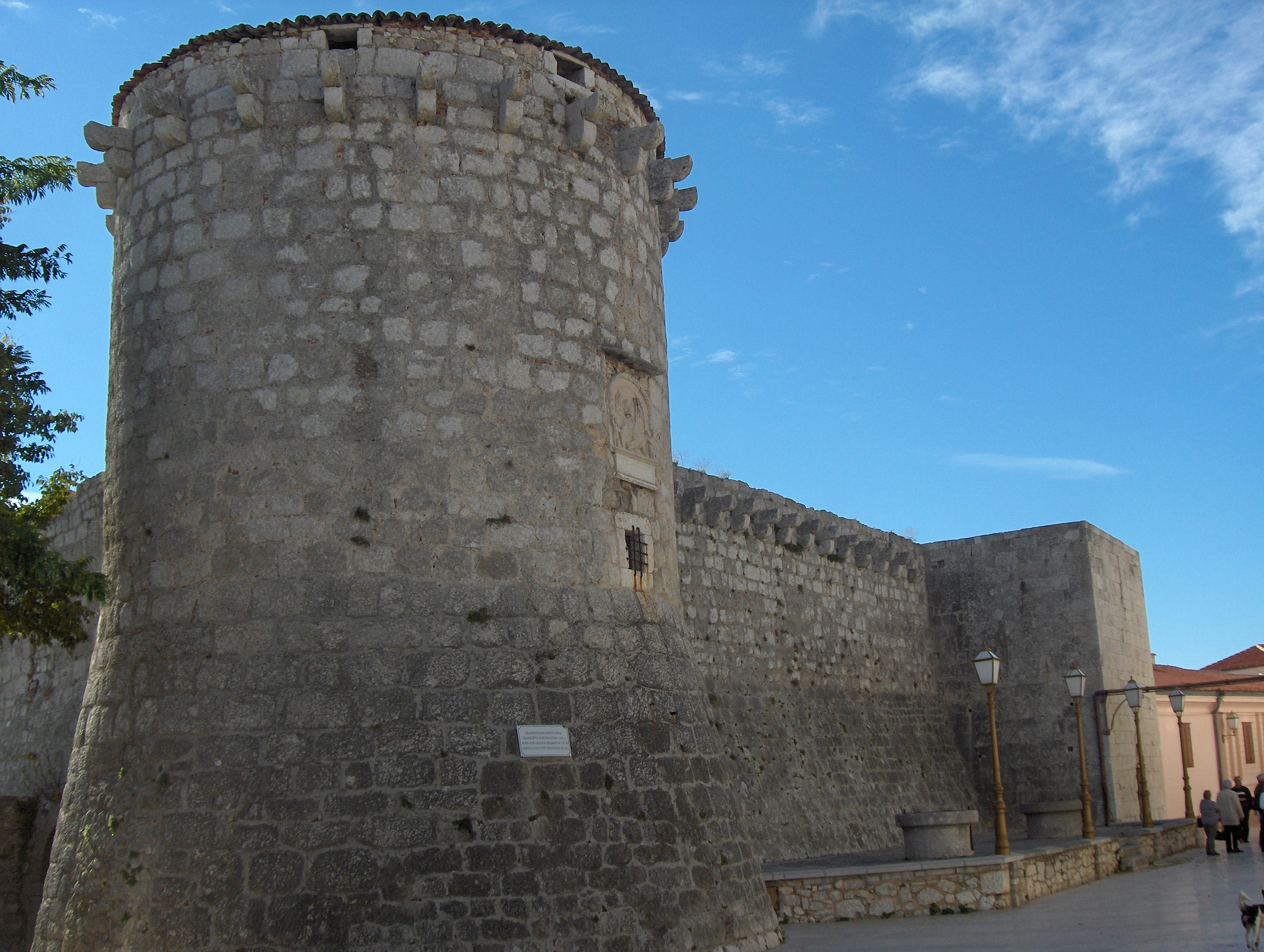 Frankopan castle (14th c.); Baška, on the island of Krk, Croatia